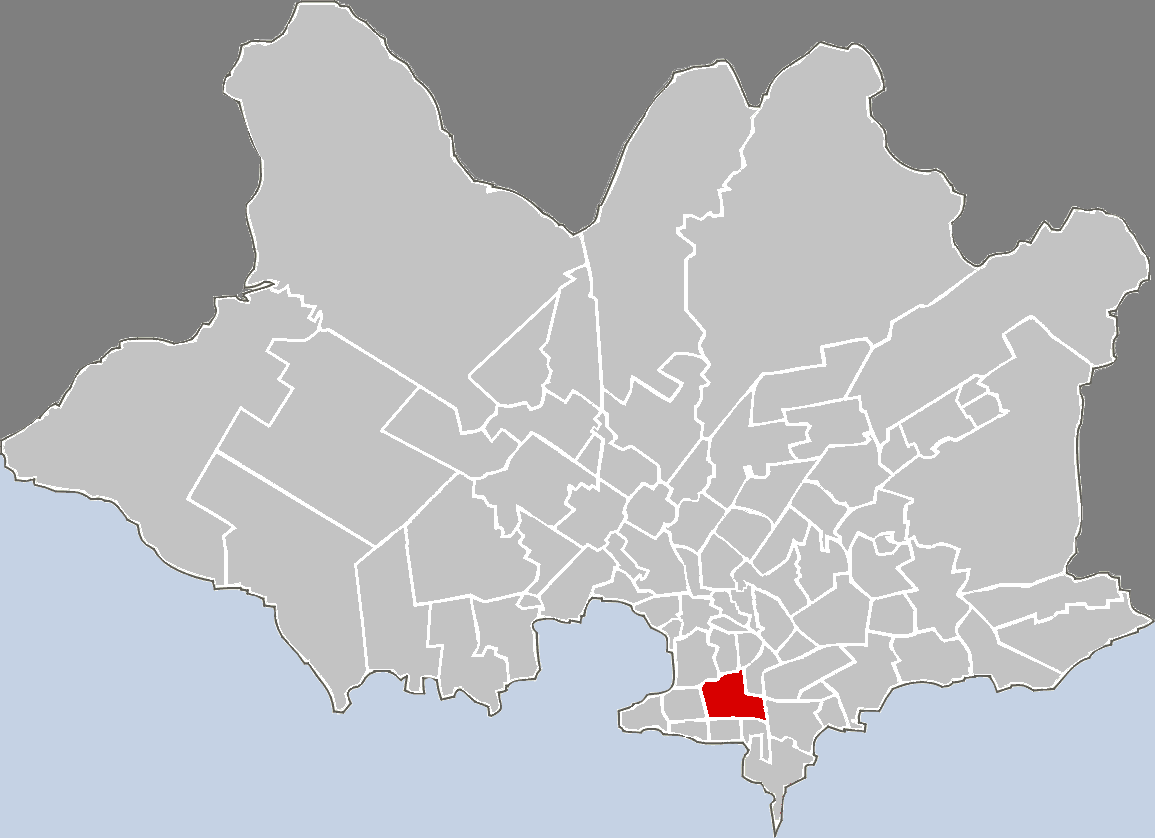 Map highlighting the given barrio in Montevideo.